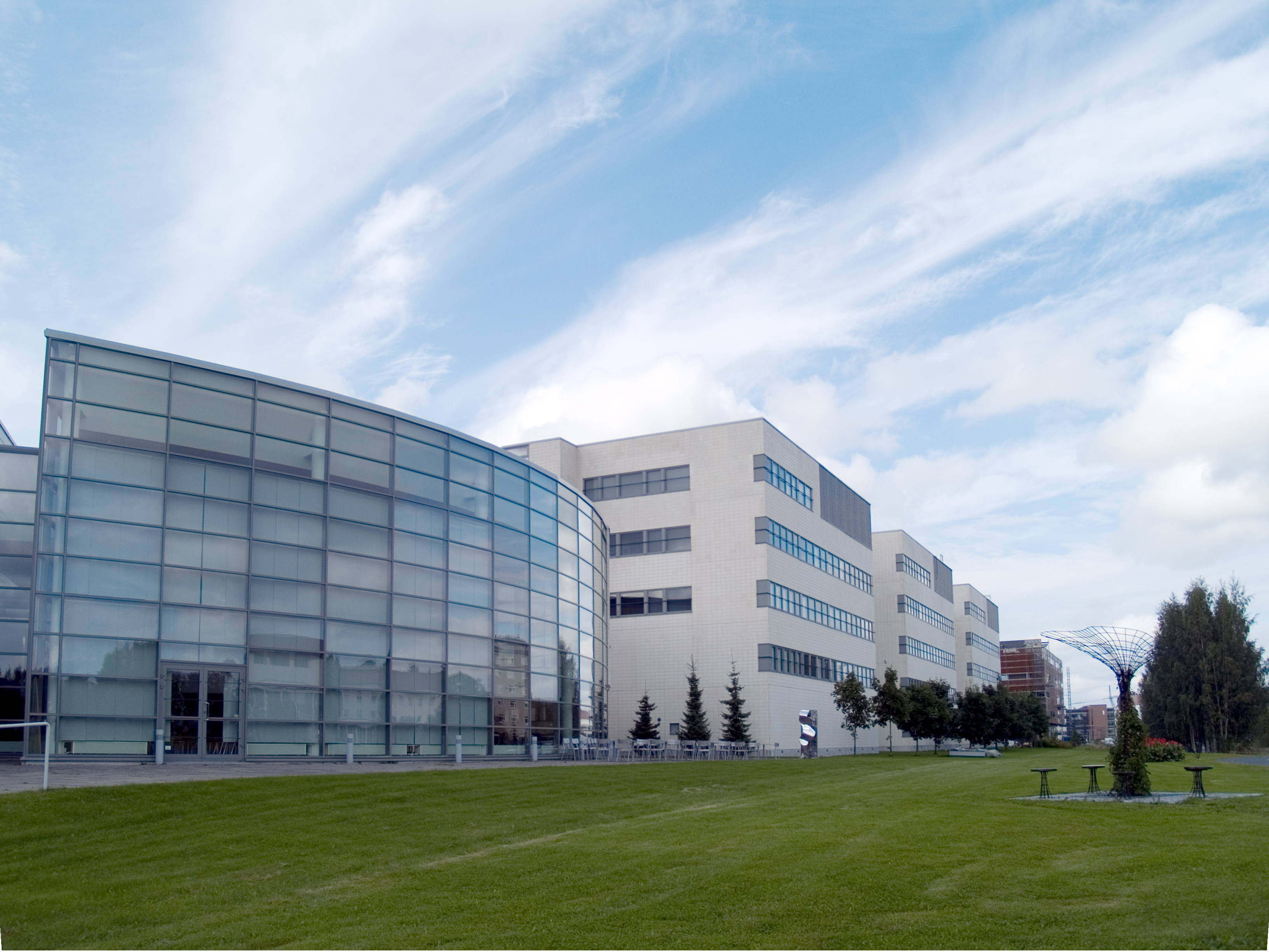 B & A buildings in Frami area, housing arts & technology departments of Seinäjoki University of Applied Sciences (SeAMK).